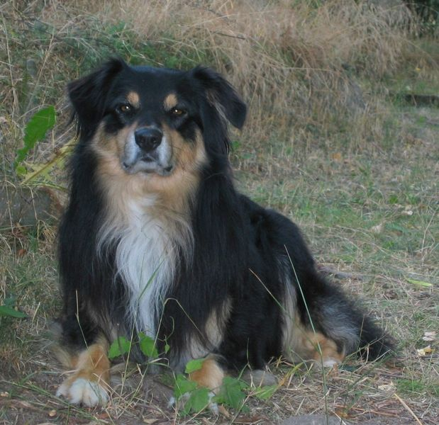 Australian Shepherd, 3 year old